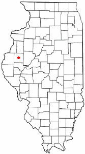 Category:Illinois city locator maps